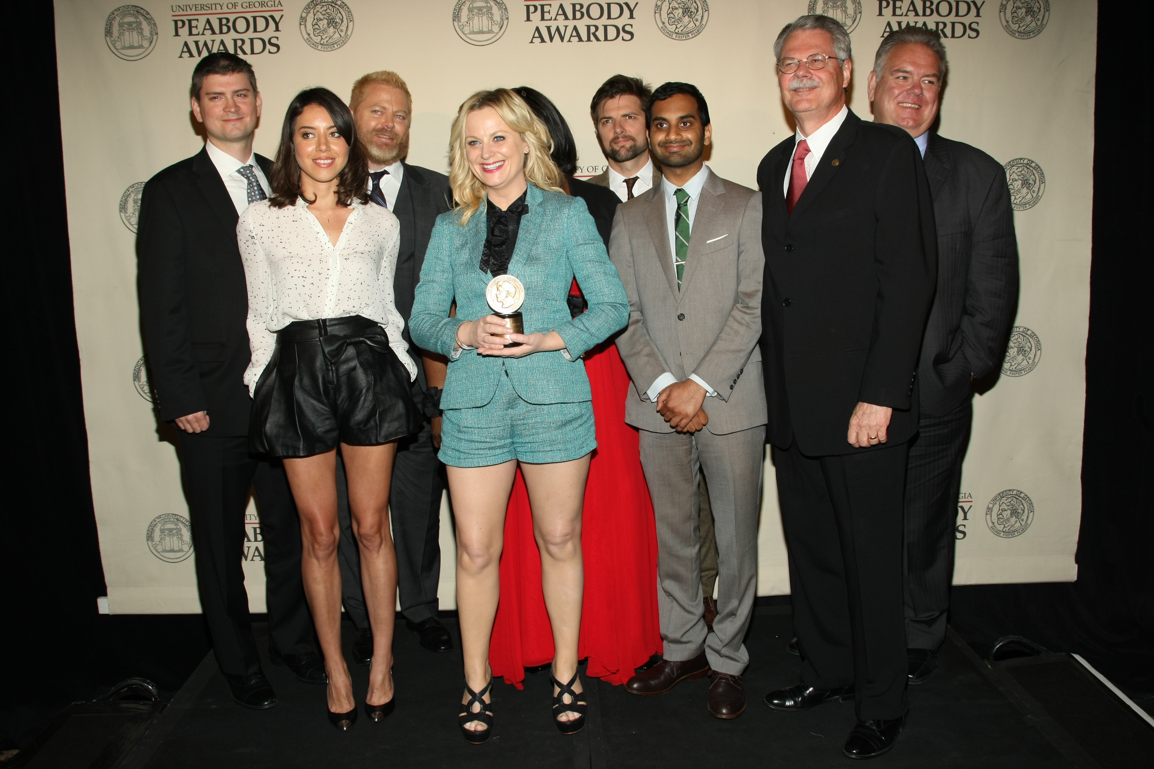 PHOTO CREDIT: ANDERS KRUSBERG / PEABODY AWARDS Mike Schur, Aubrey Plaza, Nick Offerman, Retta, Amy Poehler, Adam Scott, Aziz Ansari and Jim O'Heir 71st Annual Peabody Awards Luncheon Waldorf=Astoria Hotel May 21, 2012